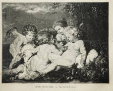 Christ and John the Baptist as children and two angels